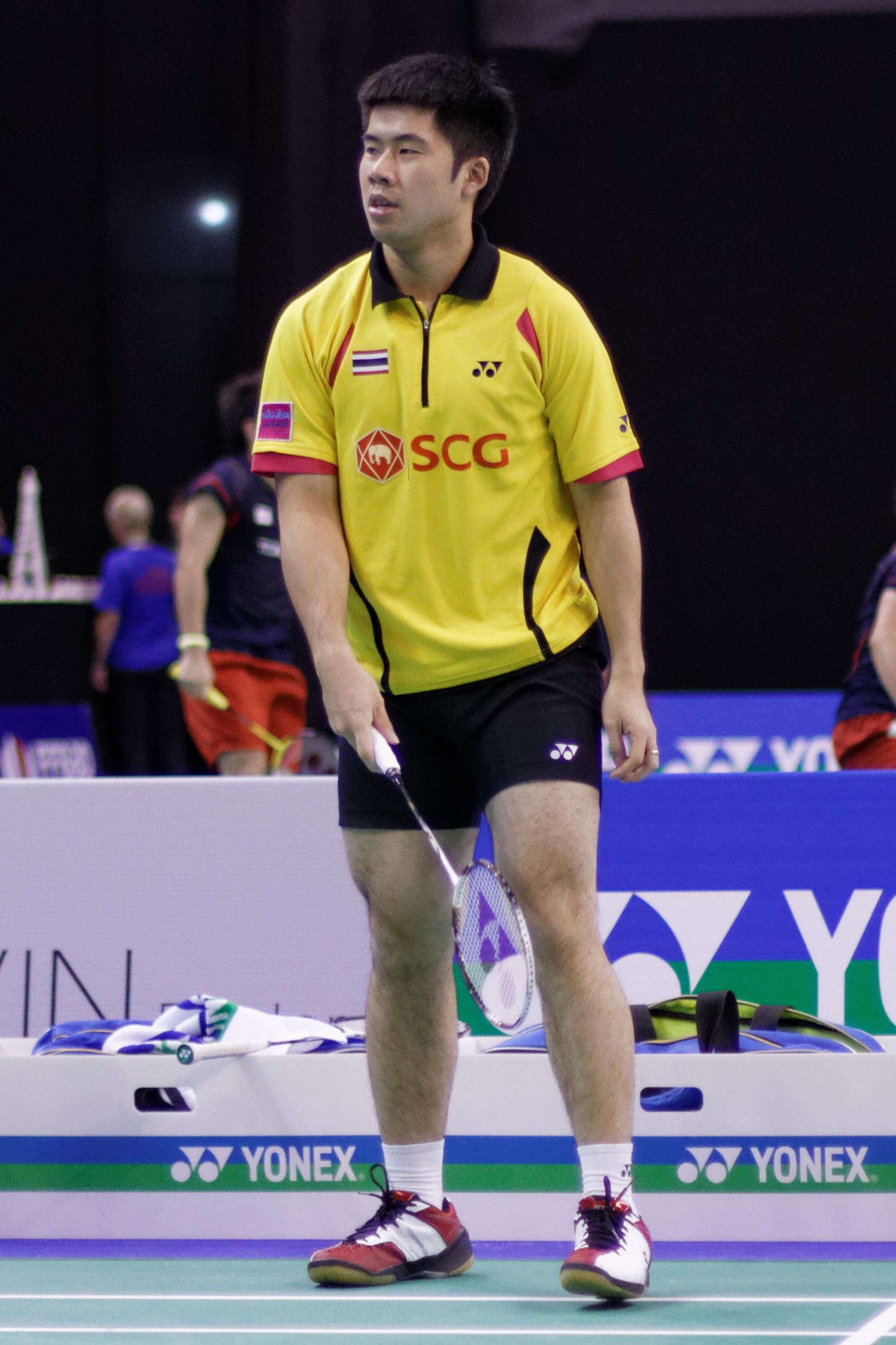 2013 French open. Men's doubles eightfinal. Lee Yong-dae and Yoo Yeon-seong vs Maneepong Jongjit and Nipitphon Puangpuapech.